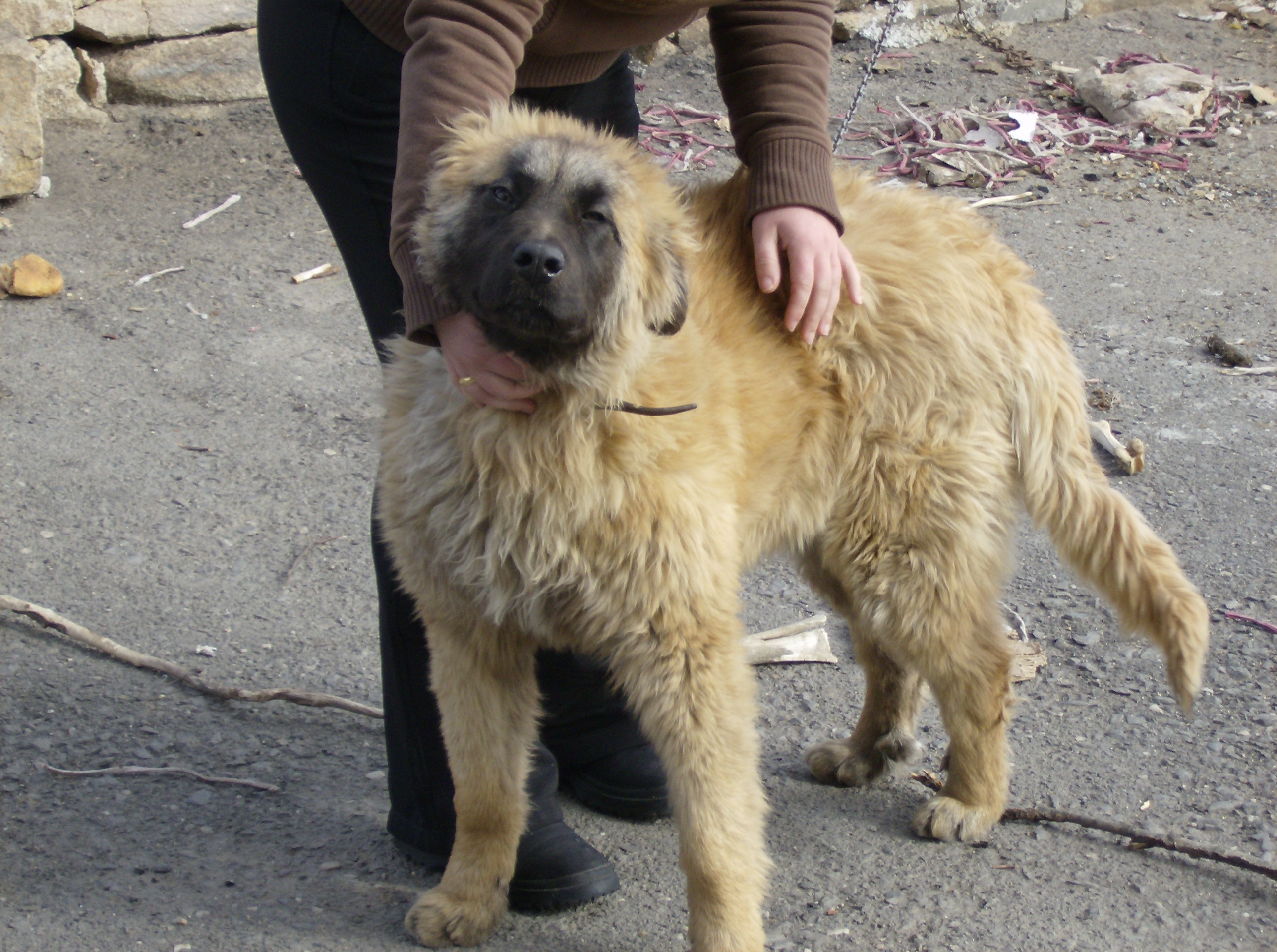 A Portuguese woman with her Estrela Mountain dog